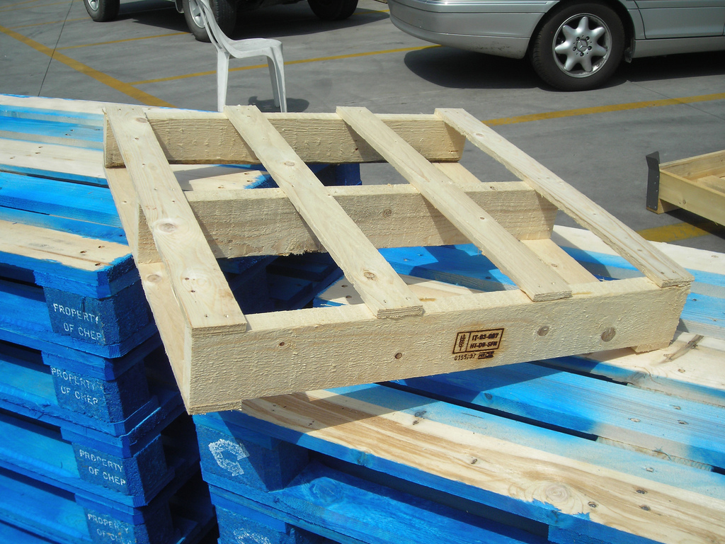 (IT shows the pallet was made in Italy, HT is for head-treatment, DB is debarked wood). The pallet is stacked on CHEP pallets, in blue. Palm©